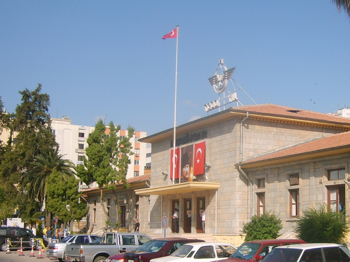 1995 station of Mersin